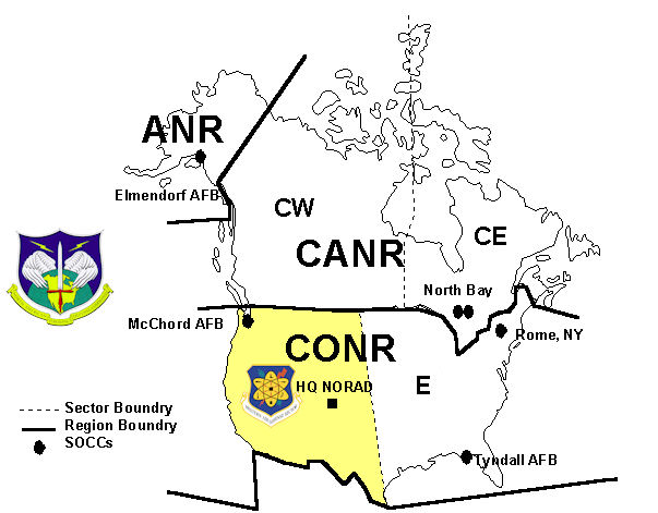 Map of Western Air Defense Sector